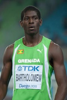 Rondell Bartholomew during 2011 World championships Athletics in Daegu